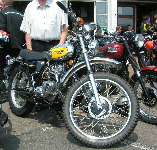 500cc dual purpose motorcycle also known as the Adventurer was marketed for 1973 and 1974 only. The tank paint on this example is slightly different from stock.